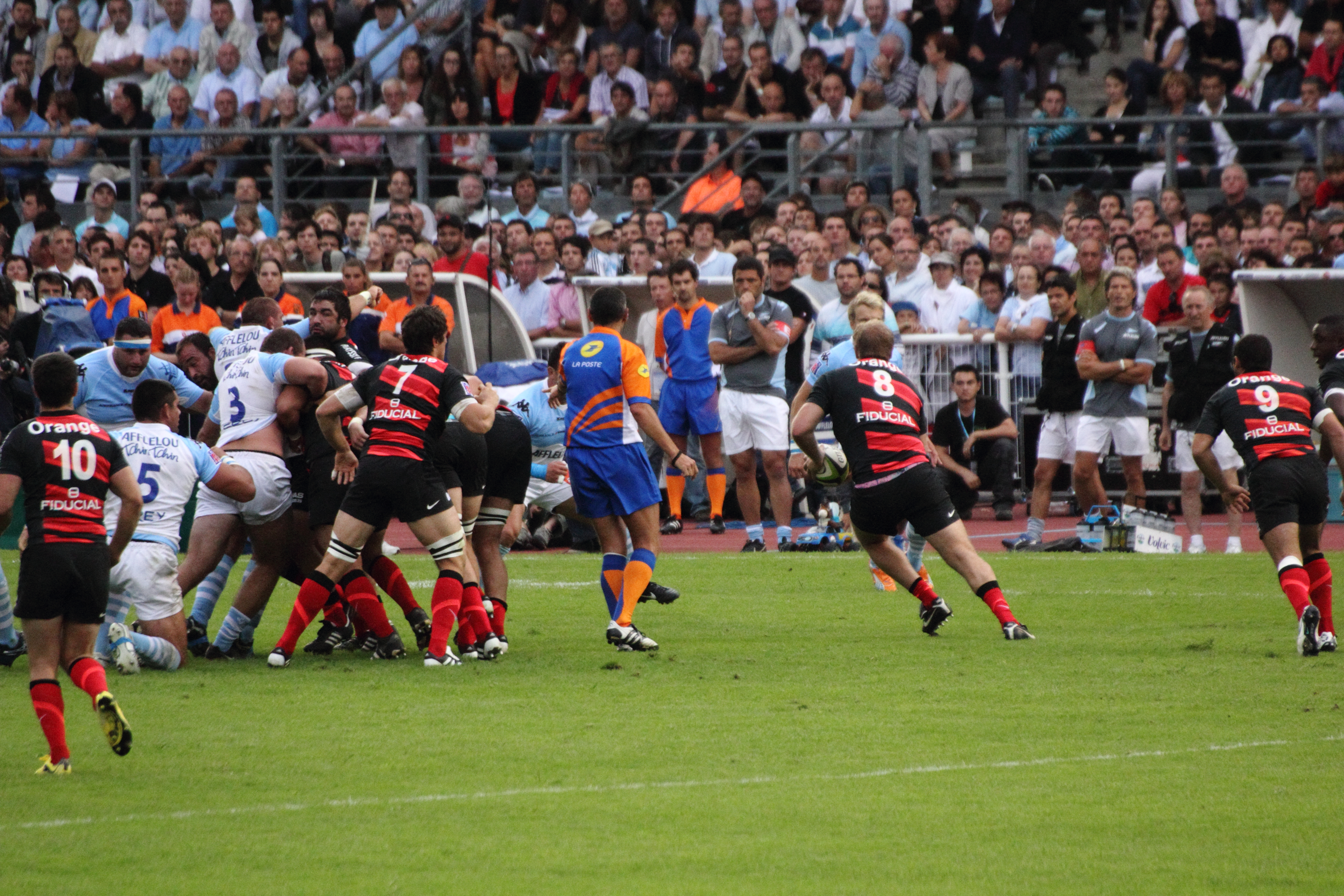 Gillian Galan going for the blind side